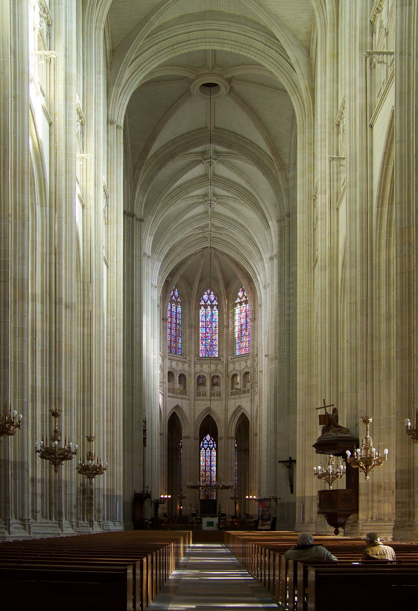 Nave of the Cathédrale Saint-Pierre et Saint-Paul de Nantes.